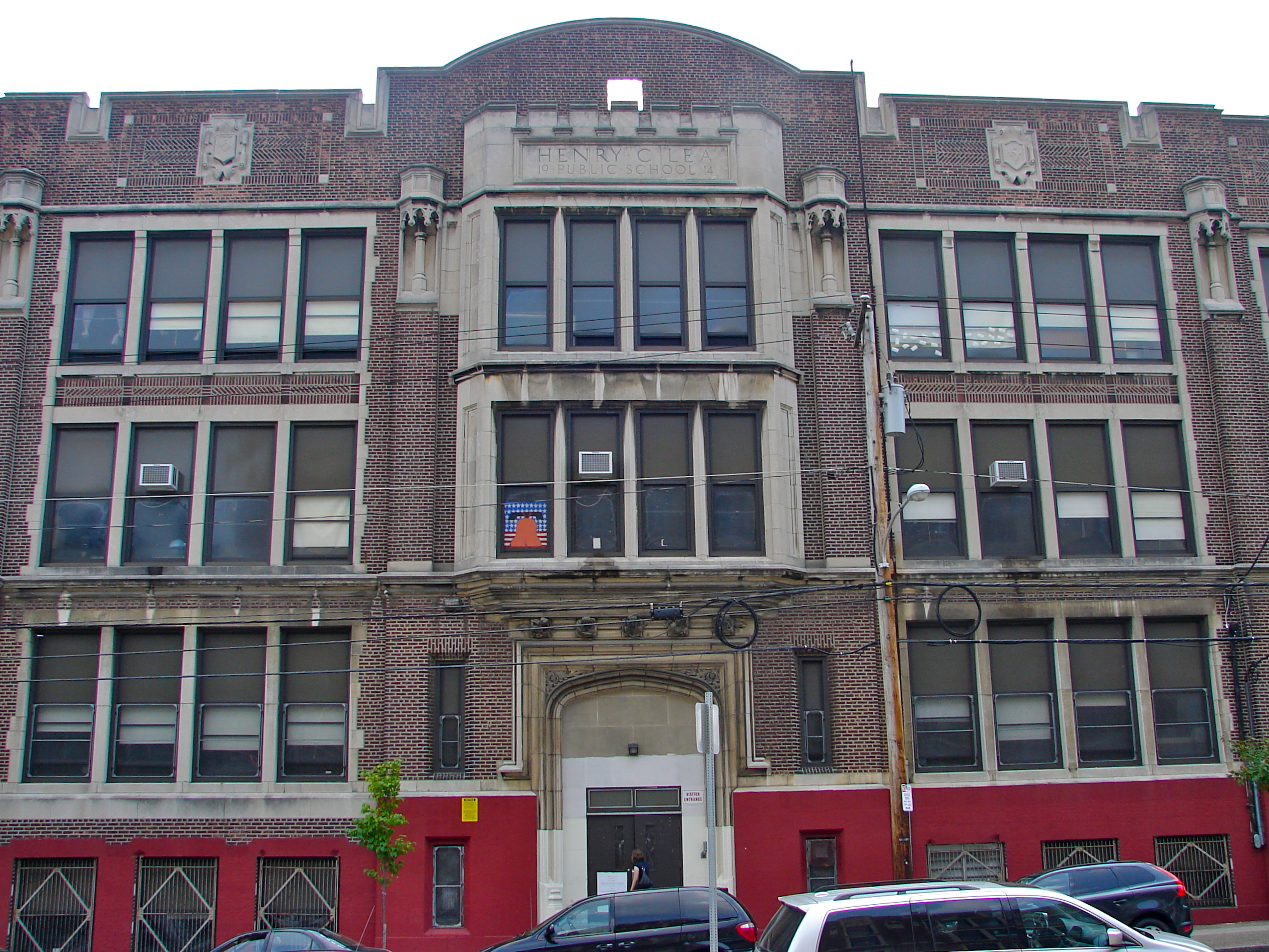 Henry C. Lea Elementary School in Philadelphia on the NRHP since November 18, 1988. At 4700 Locust Street in the Walnut Hill neighborhood of West Philly.